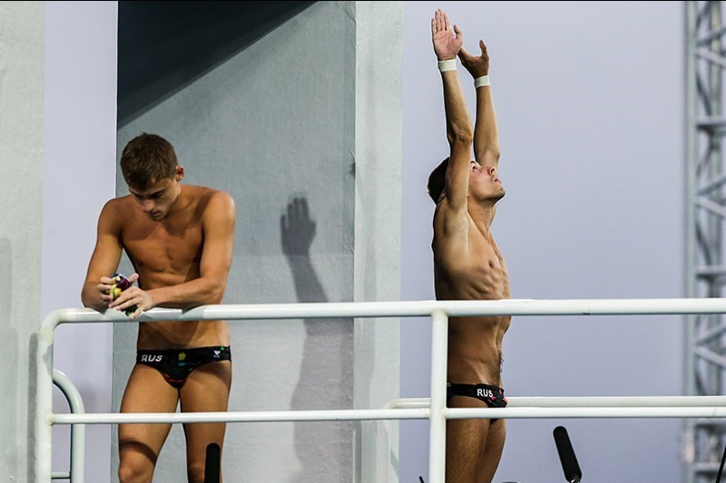 Diving at the 2016 Summer Olympics – Men's synchronized 10 metre platform – Russian pair Viktor Minibaev and Nikita Shleikher